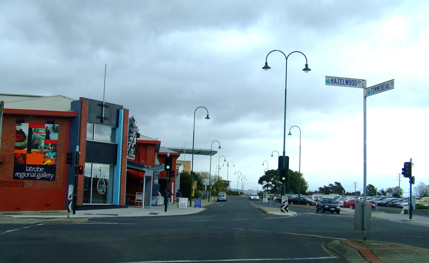 Photo taken in May 2006 on the corner of Hazelwood and Commercial roads, Morwell. To the left is the Latrobe Regional art gallery, and to the right is the car park for the Latrobe City shire offices. Straight ahead is the rose gardens. Corner Commercial Road / Hazelwood Road Morwell